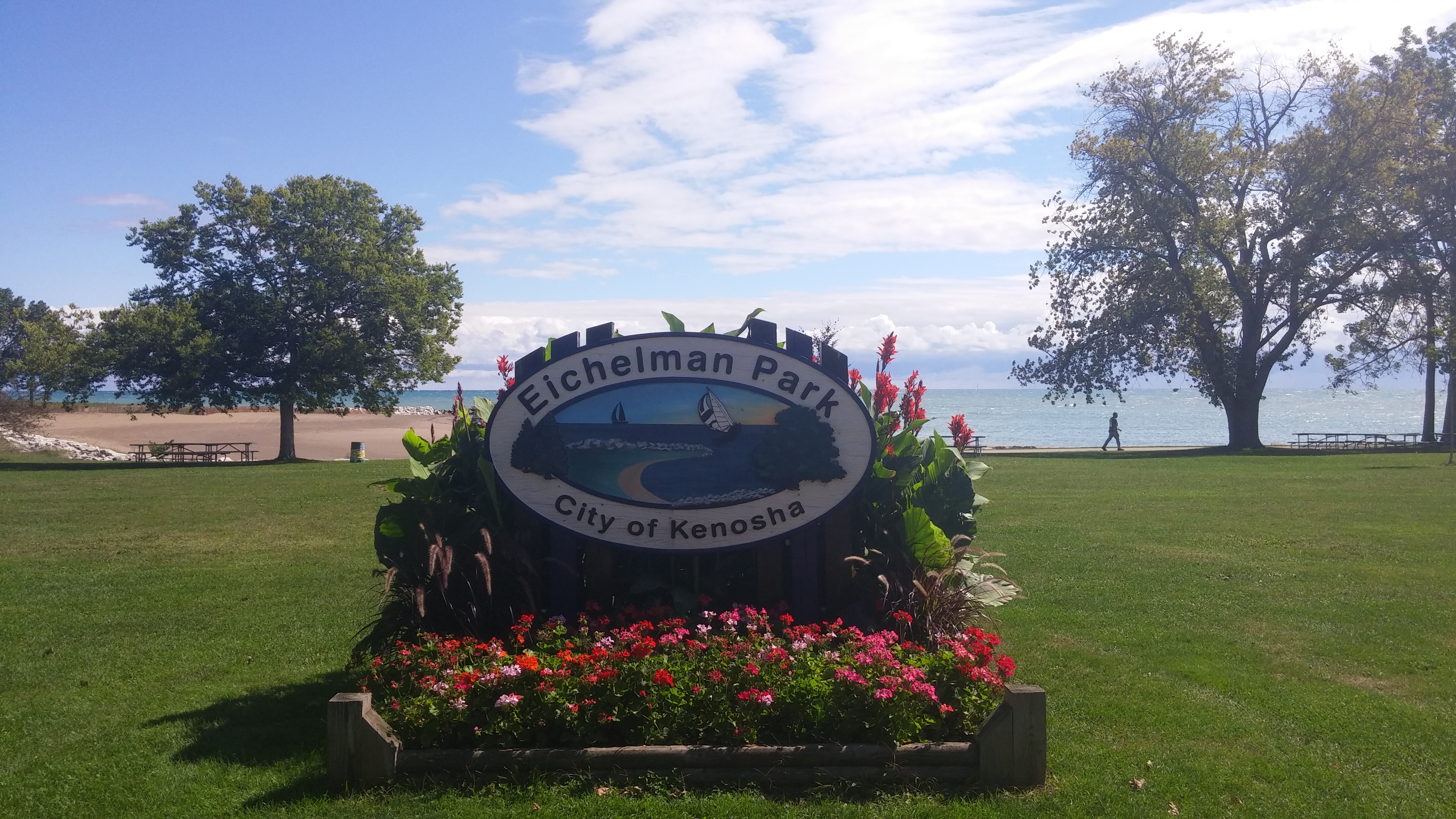 This is a photograph of Kenosha, Wisconsin's Eichelman Park on Lake Michigan.